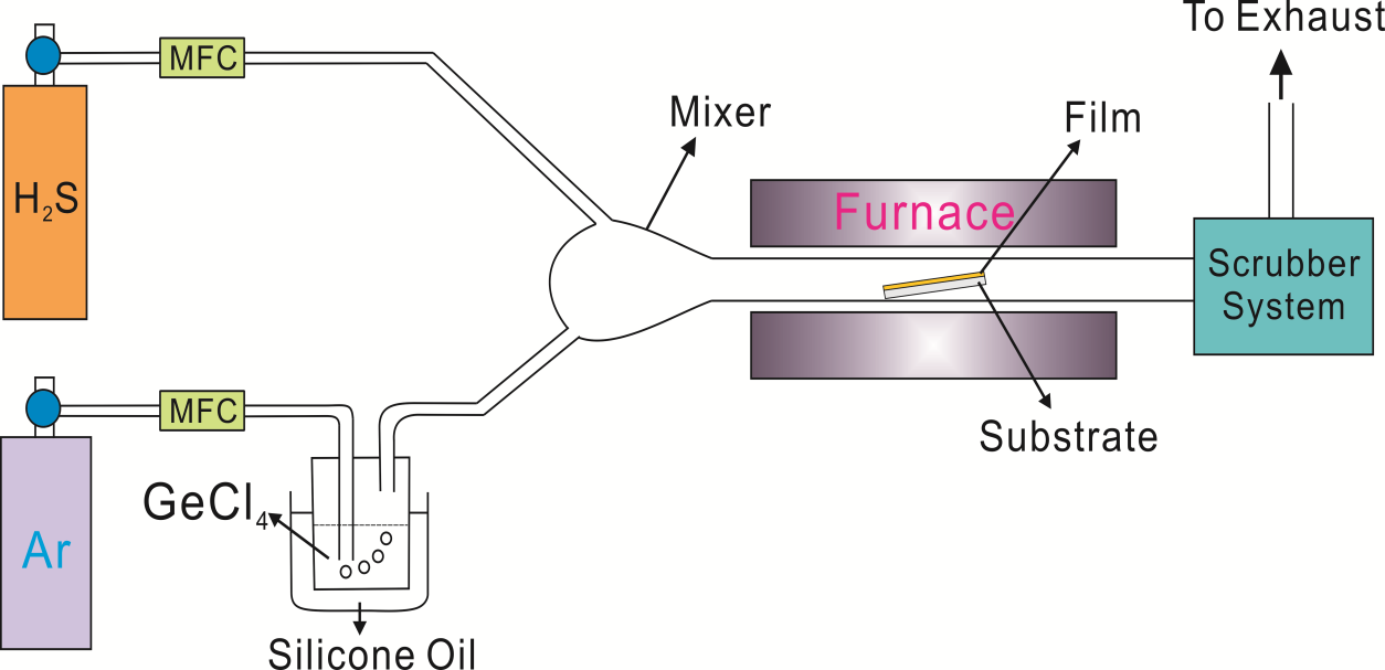 GeS CVD setup